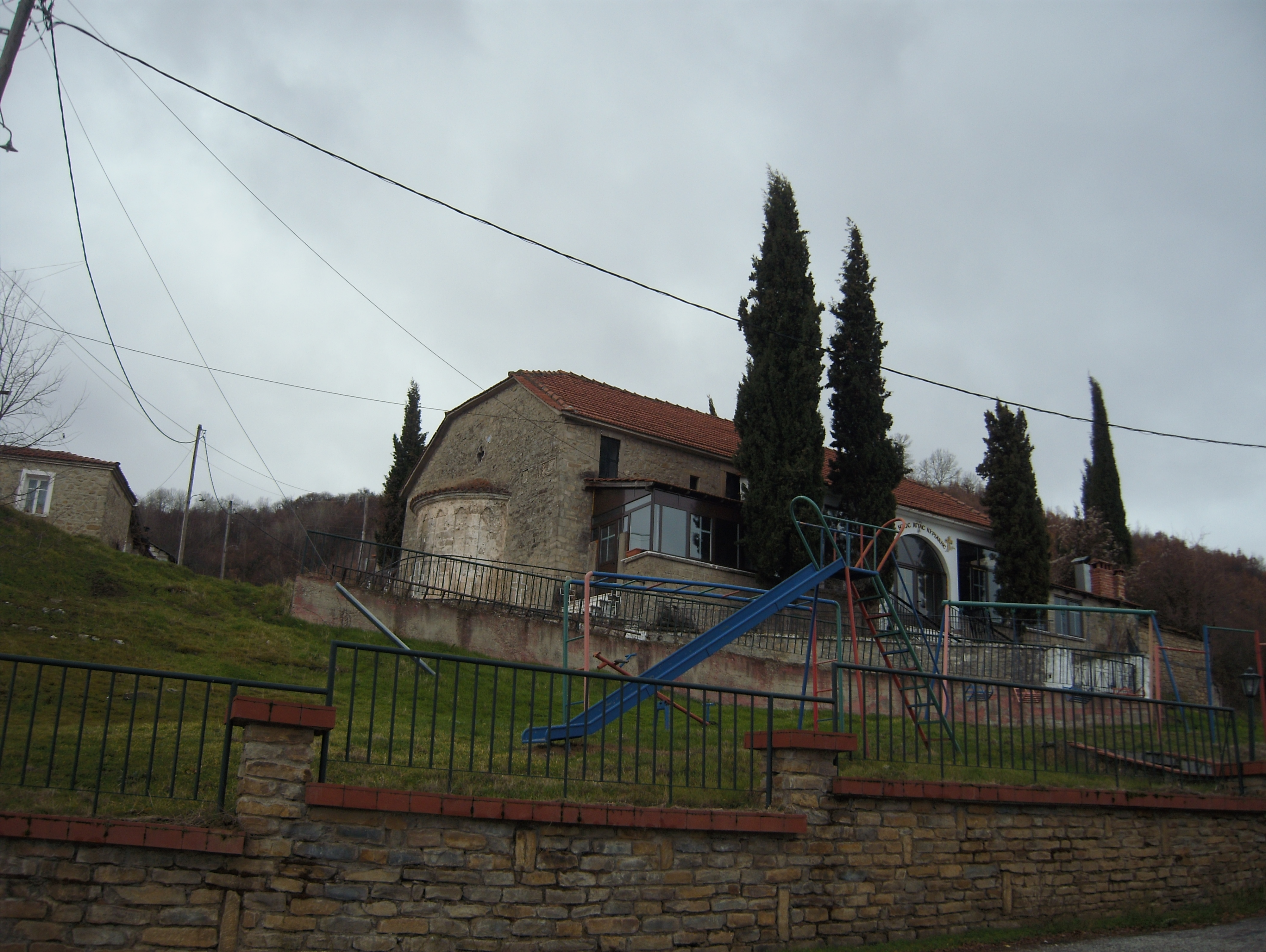 Zhuzheltsi / Spilaia